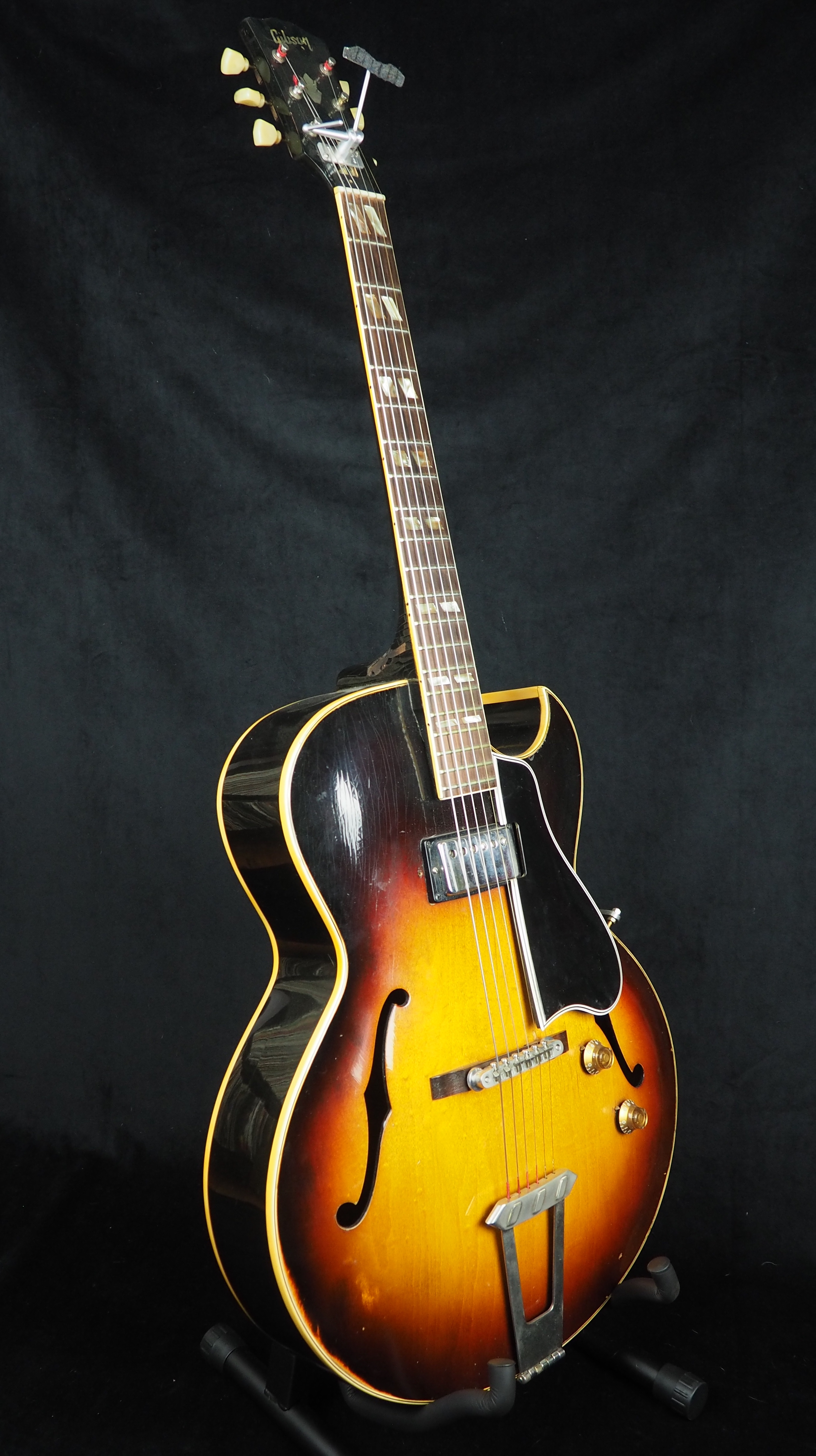 Herb Ellis's 1953 Gibson ES-175. He had the pickup modified from original P90 to a "patent number" Gibson humbucker. This was his primary guitar for most of his life from its original purchase ca. 1953 until his death, except for a period of endorsement in the late 1970s through the early 1980s when he publicly played his signature Aria Pro II PE-175. This ES-175 appears with Herb Ellis in hundreds, if not thousands of recordings and can be seen in film footage in appearances with such greats as Ella Fitzgerald, Nat King Cole, and Oscar Peterson.